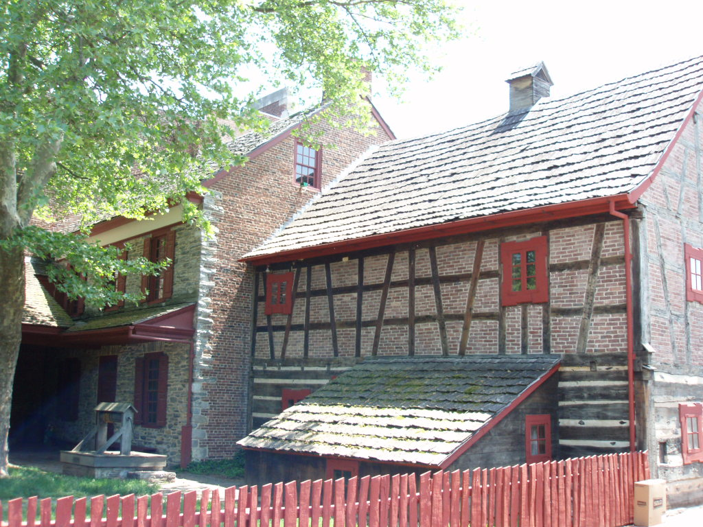 Golden Plough Tavern, York PA, from behind; Horatio Gates home is adjacent